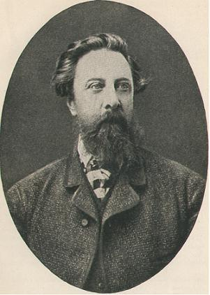 A. K. Tolstoy photo 1860s